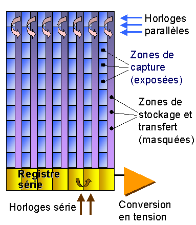 Schematic layout of an interline CCD / Schéma d'un CCD interligne Illustration personnelle / Personal drawing